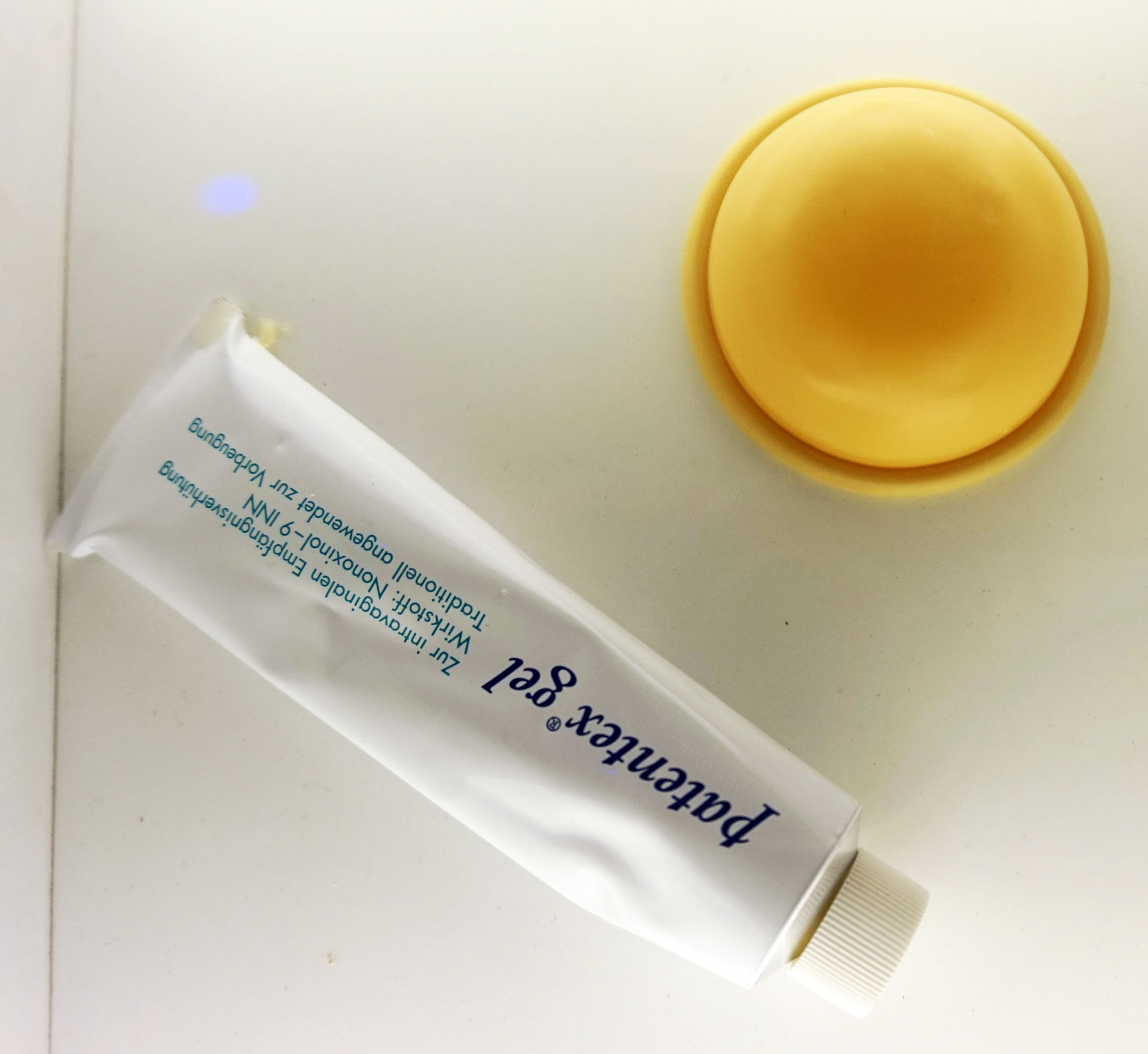 A cervical cap and Patentex gel in the Deutsches Museum, Munich. This photograph was taken with a Sony Alpha a5000.